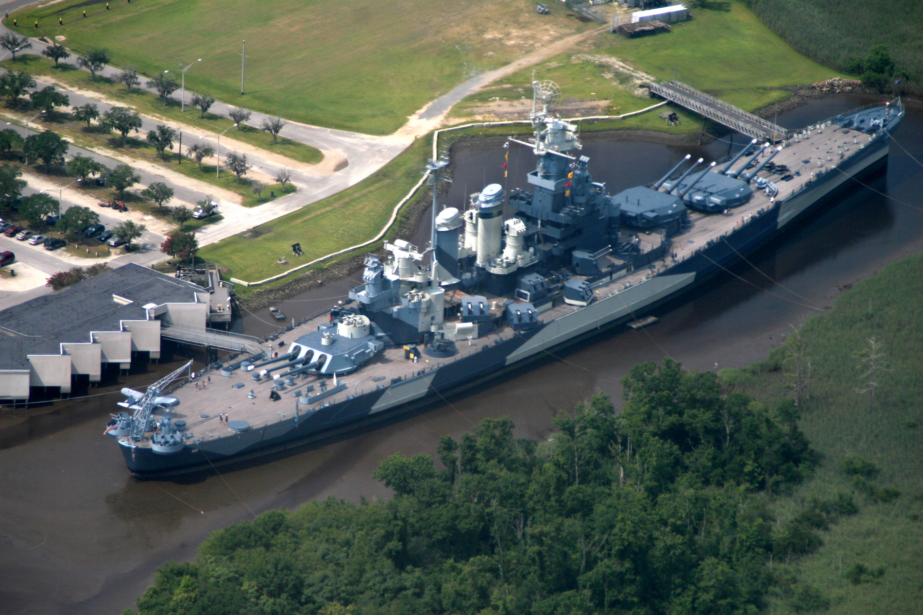 The U.S.S. North Carolina, a battleship and museum.